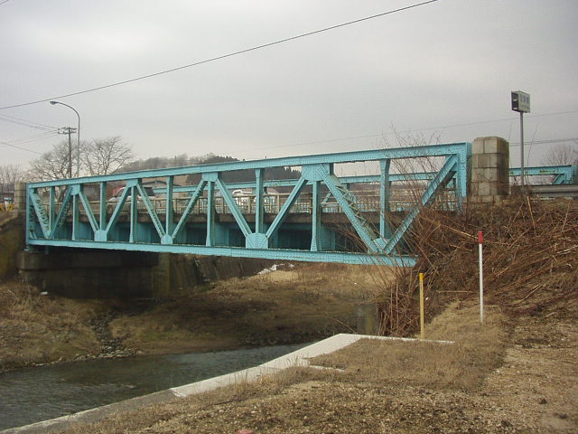 Tosen Bridge. Noboribetsu, Hokkaidō prefecture, Japan.